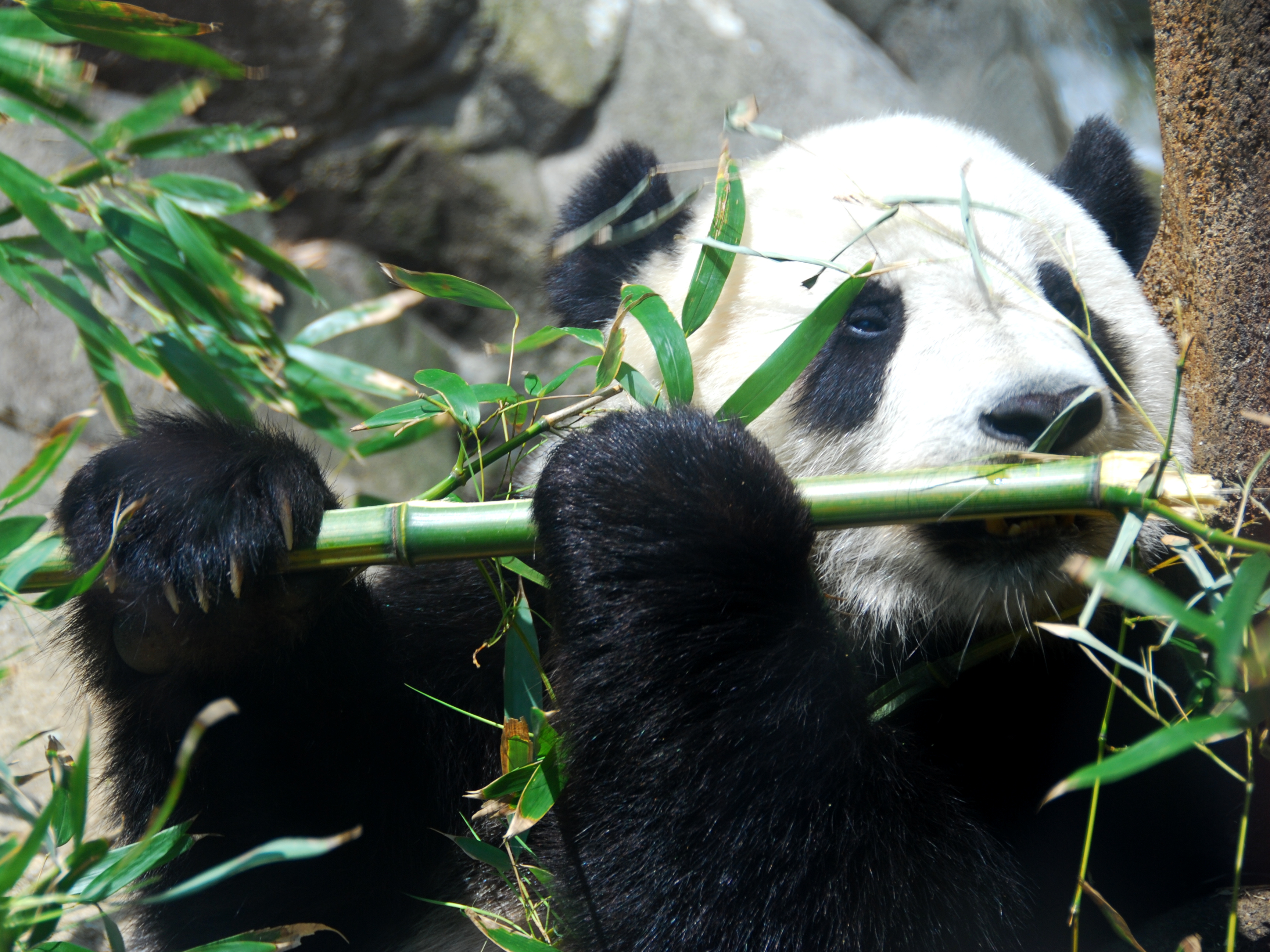 Male Giant Panda "Tai Shan" (*2005) at the Smithsonian National Zoological Park in Washington, D.C.